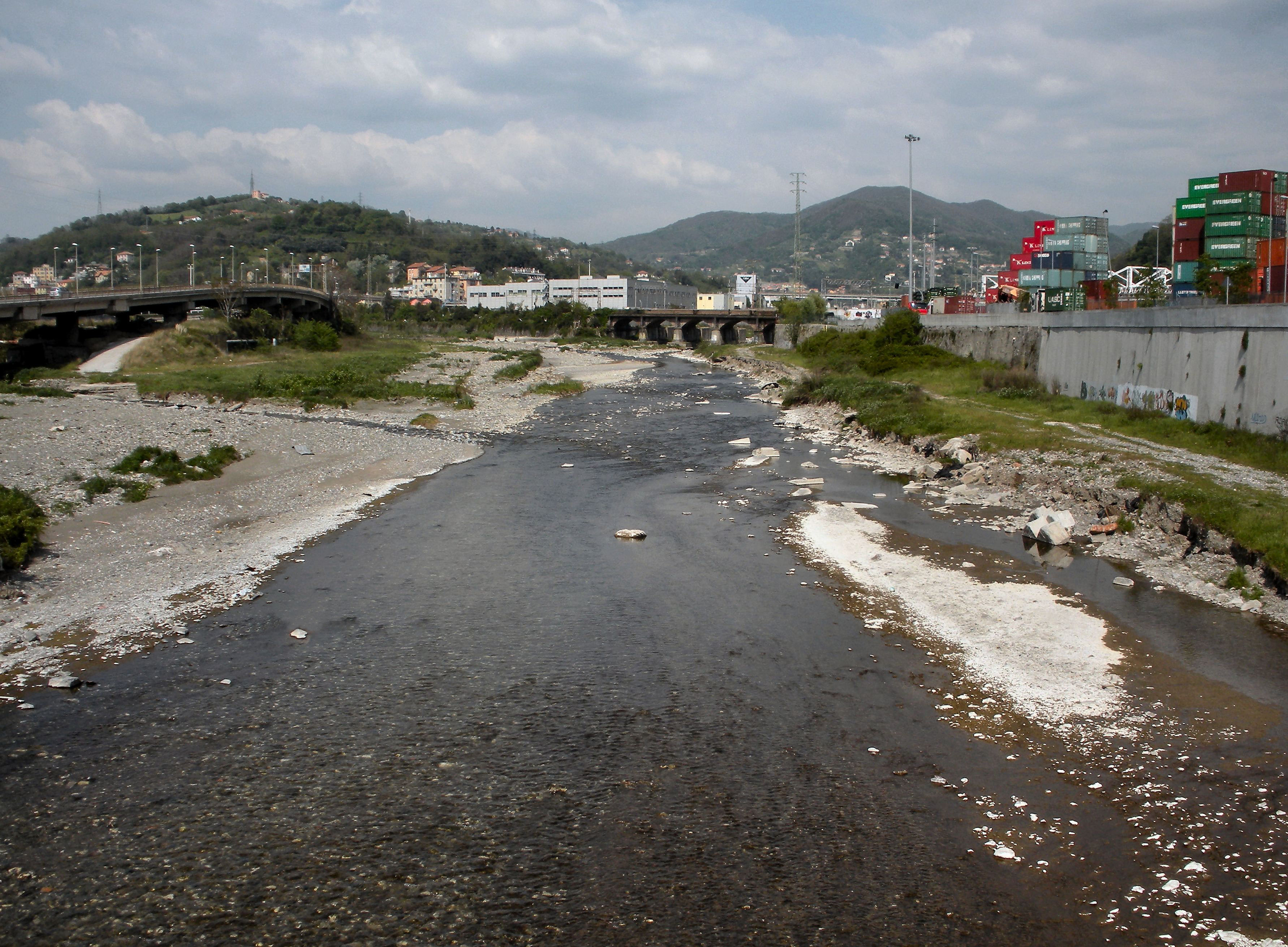 Genoa (Italy), the river Polcevera near Bolzaneto